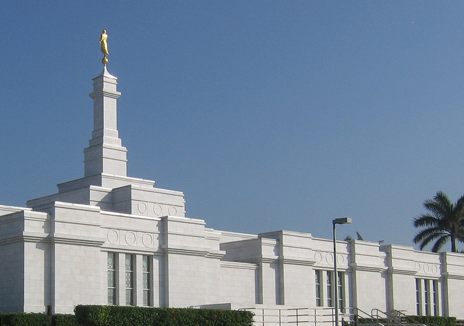 The Veracruz México Temple of The Church of Jesus Christ of Latter-day Saints in 2007